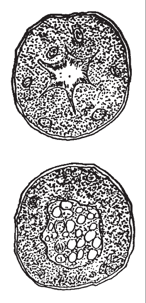 Cross sections of Malpighiantubules.Top: healthy tubule. Bottom: tubule containing cysts of Malpighamoeba mellificae.